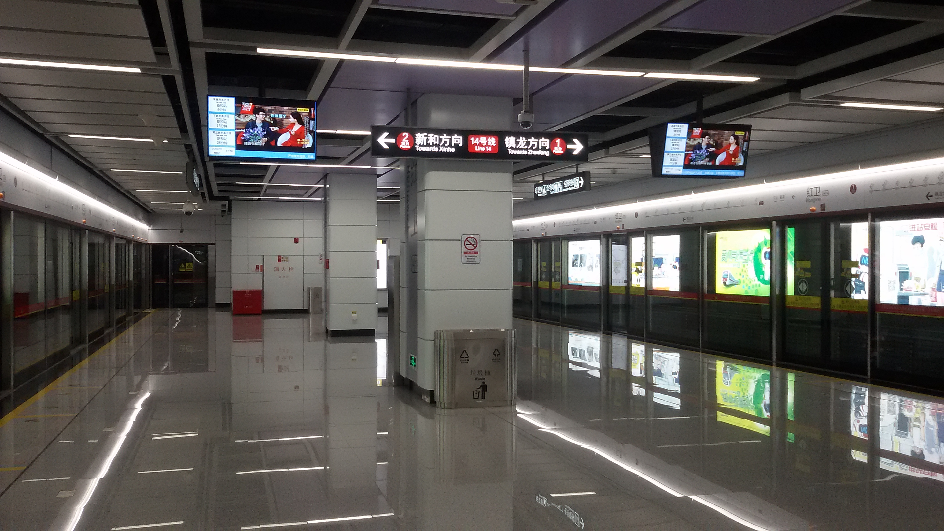 Station Platform for Hongwei Station in Guangzhou Metro.